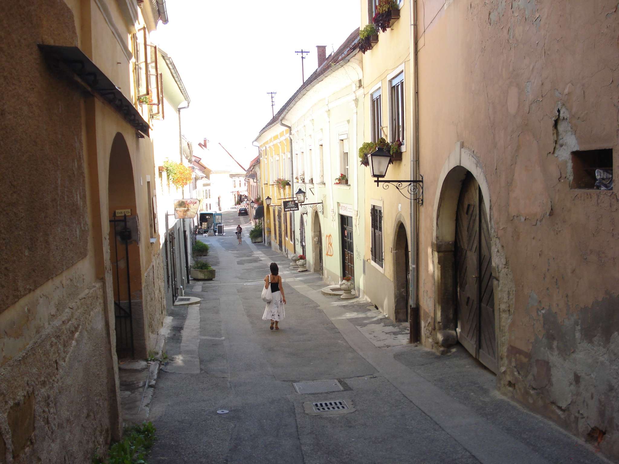 This is a picture/photo taken in August 2010 in Ptuj, Slovenia on Jadranska ulica where the former Synagogue took place.